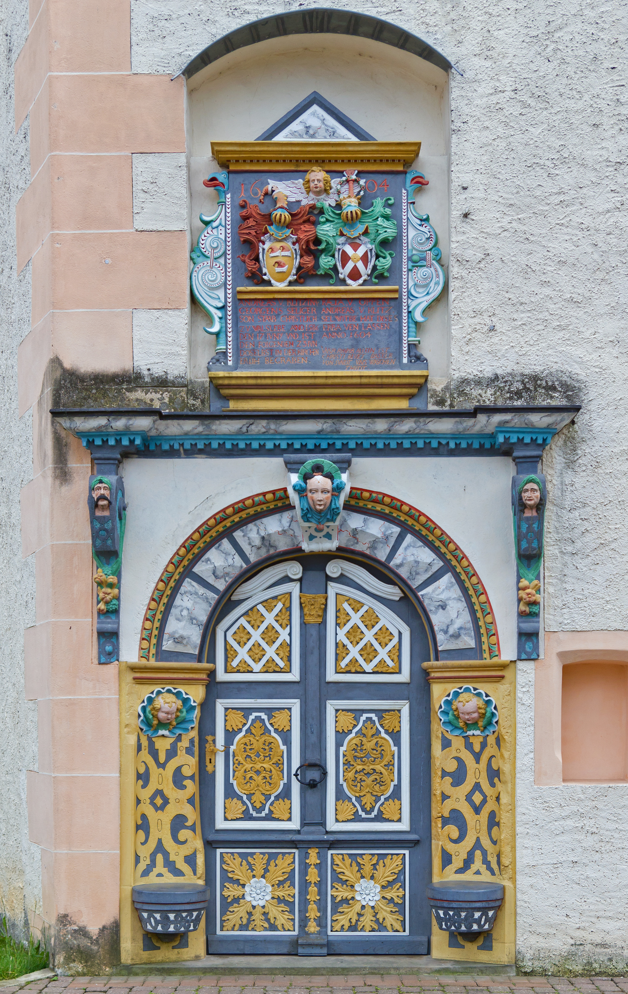 Demerthin Castle in Gumtow, Brandenburg, Germany.